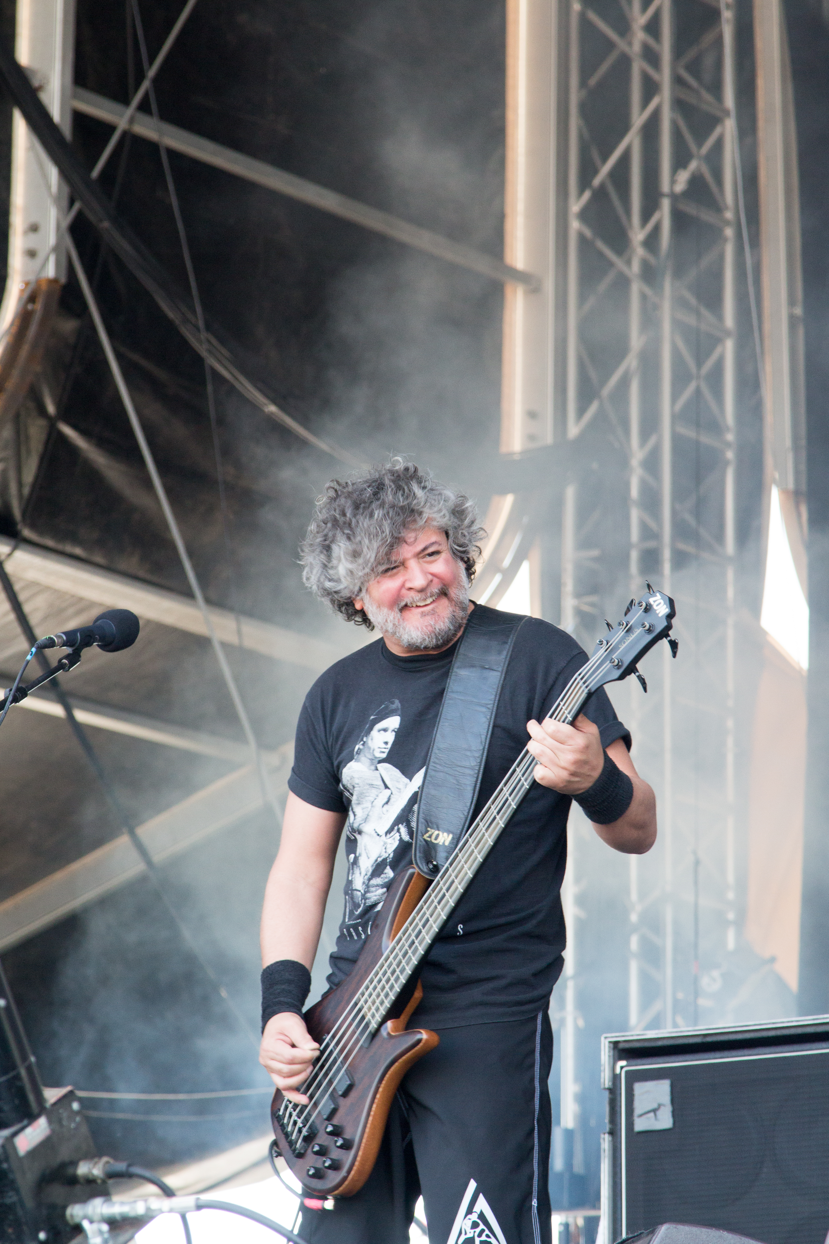 Paulo Xisto Pinto Jr. from Sepultura at the Nova Rock 2014